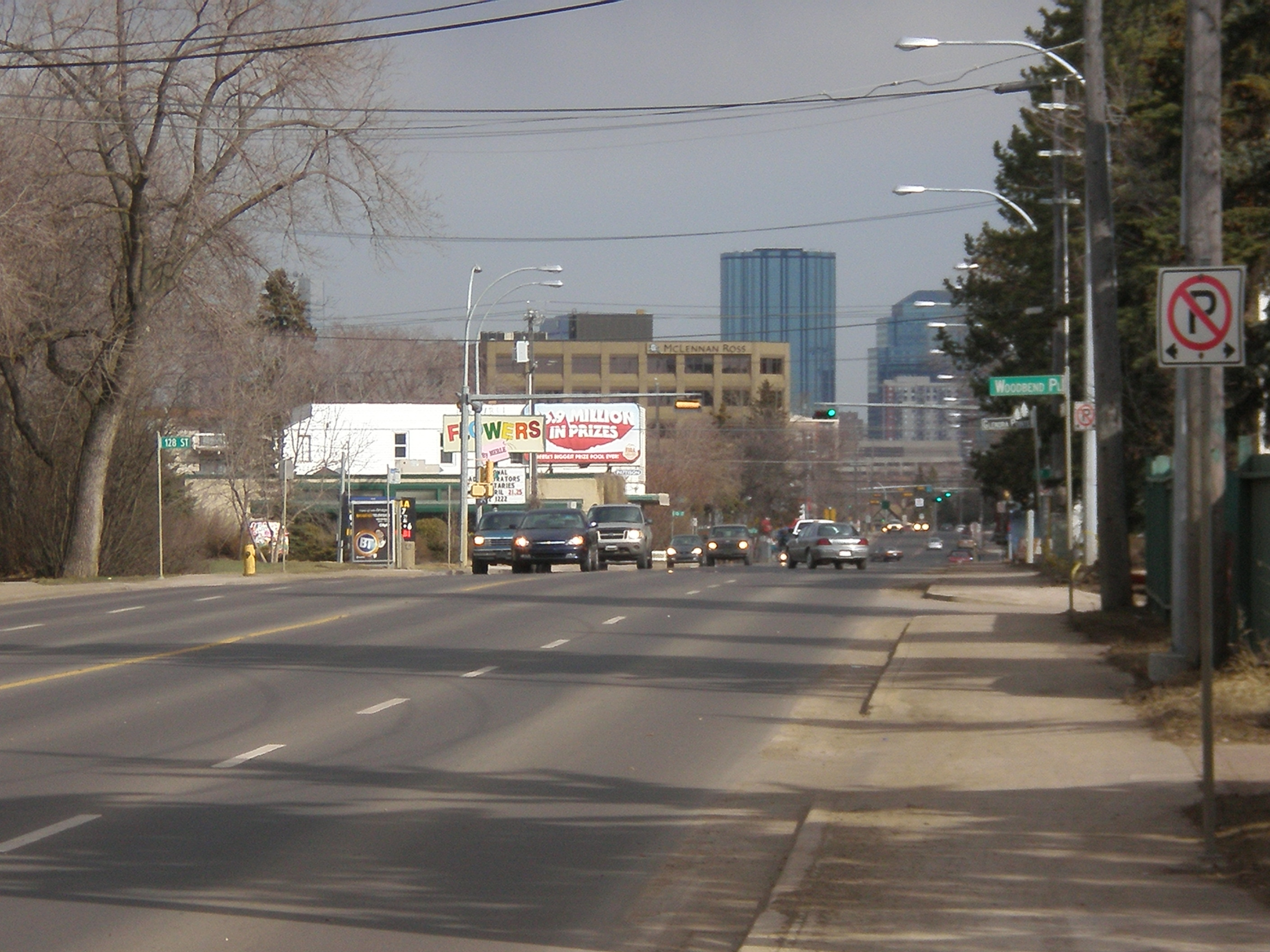 Stony Plain Road, Edmonton, AB, Canada. Looking east from the west end of town towards the downtown. Spring, 2008.